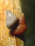 Endemic landsnails (Omphalotropis rubens) from Reunion Island, Dos D'Ane